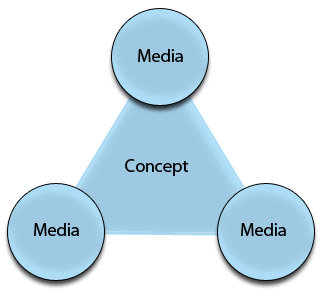 transmediaal concept